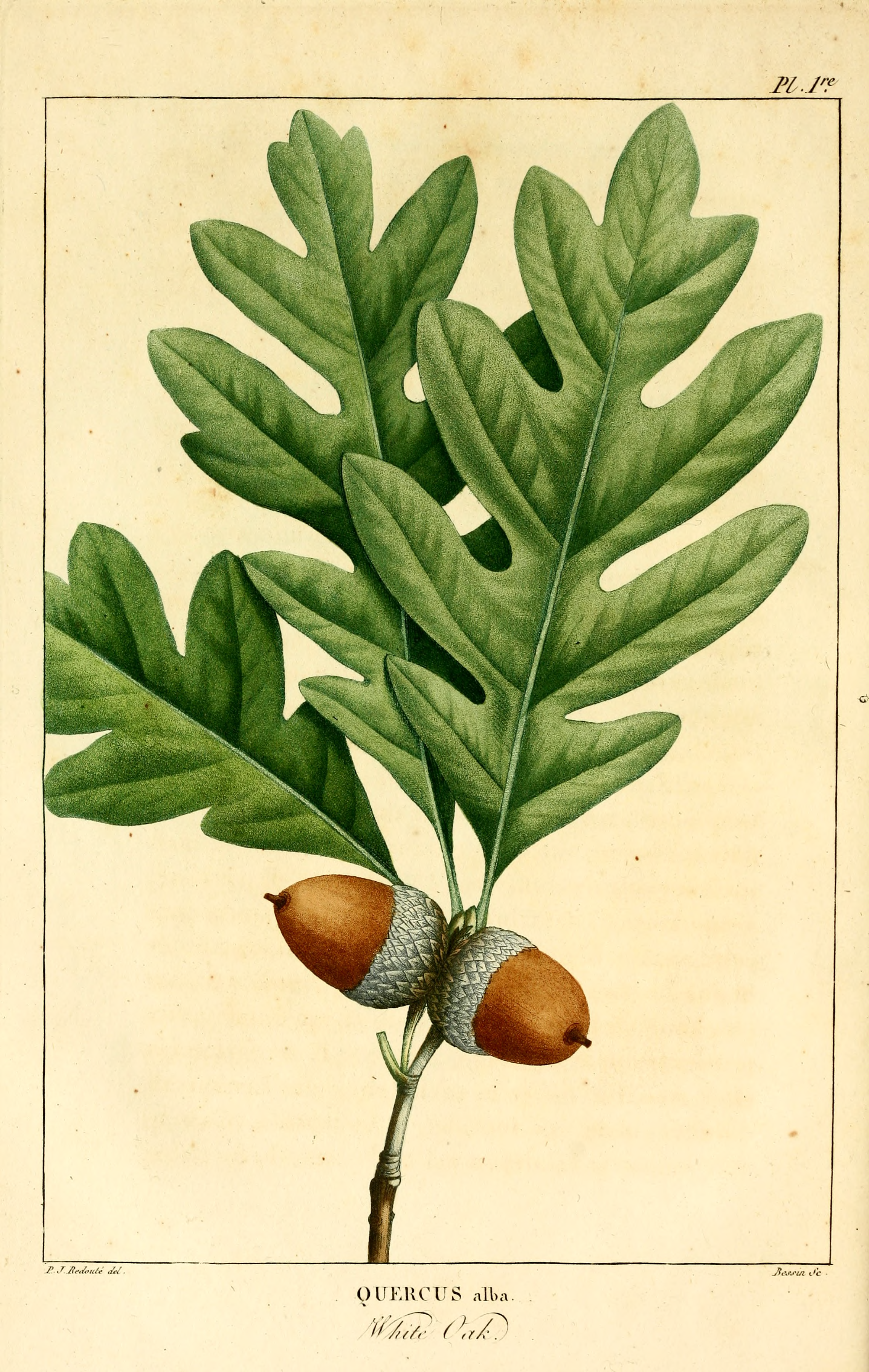 Plate 1. Quercus alba - White Oak - A branch with leaves and acorns of the natural size.